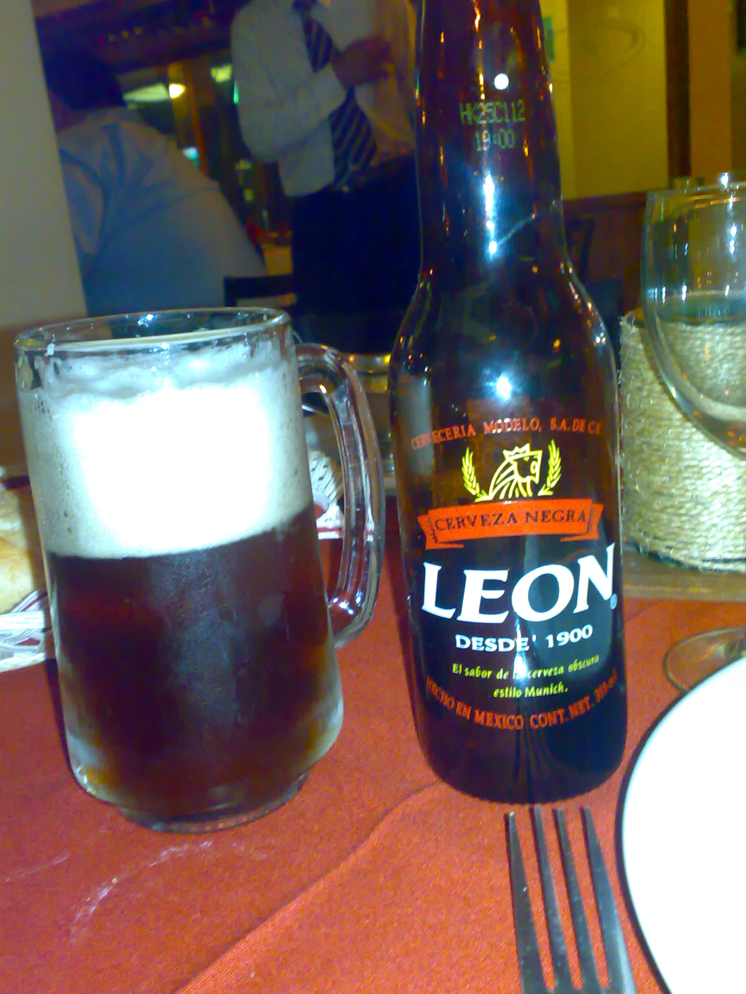 The beer Leon. Picture taken by me.